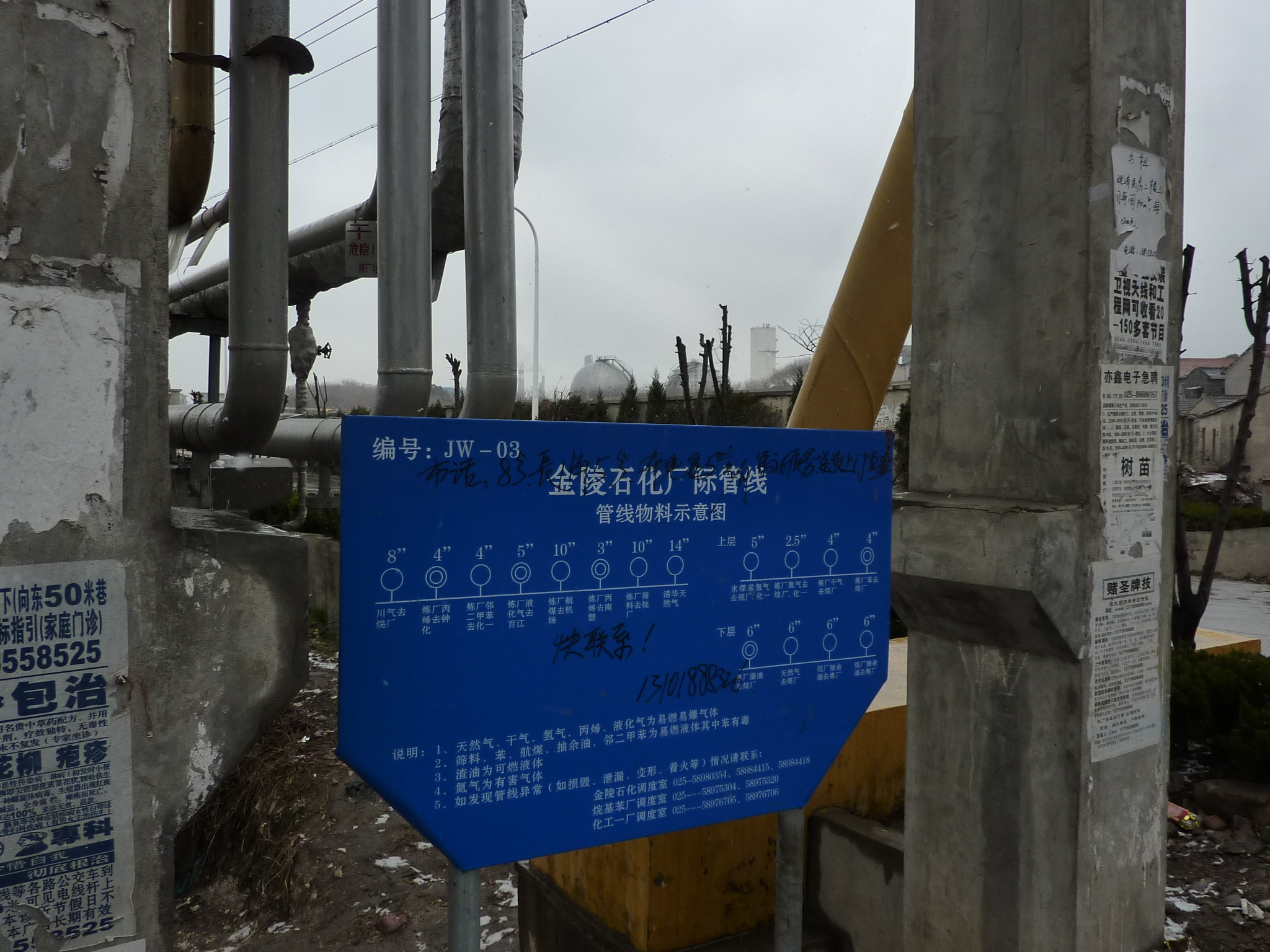 On the streets of Ganjiaxiang, an industrial neighborhood in Qixia District, Nanjing. This photo: Pipelines that connect to Jinling Oil Refinery.